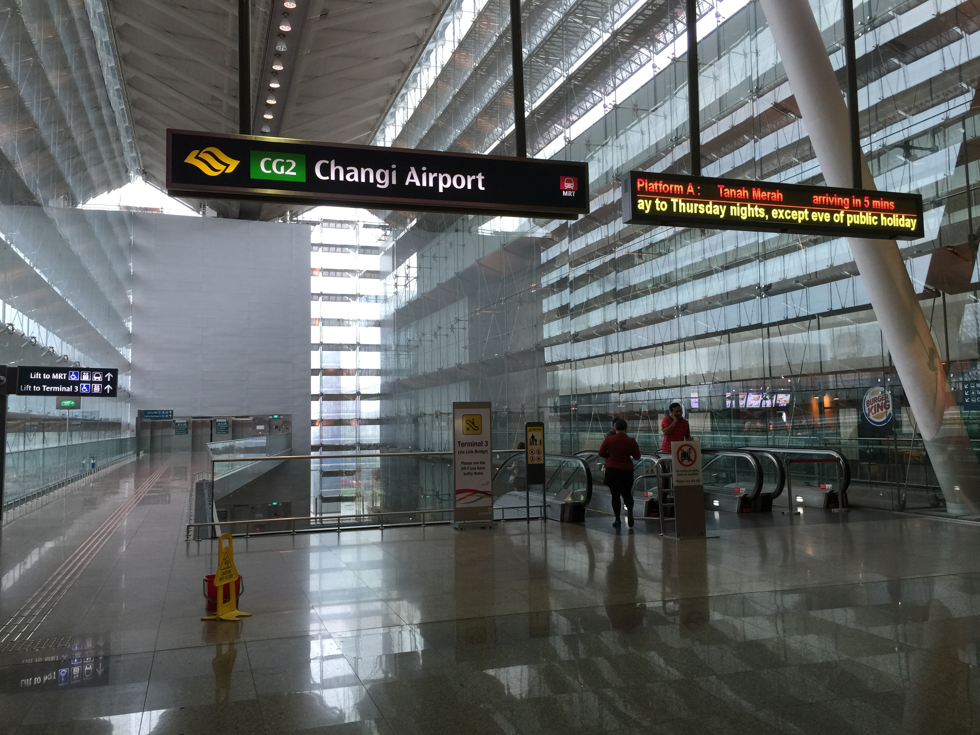 Changi Airport MRT Station - Exit A (Terminal 2) on the East West Line (Changi Branch).